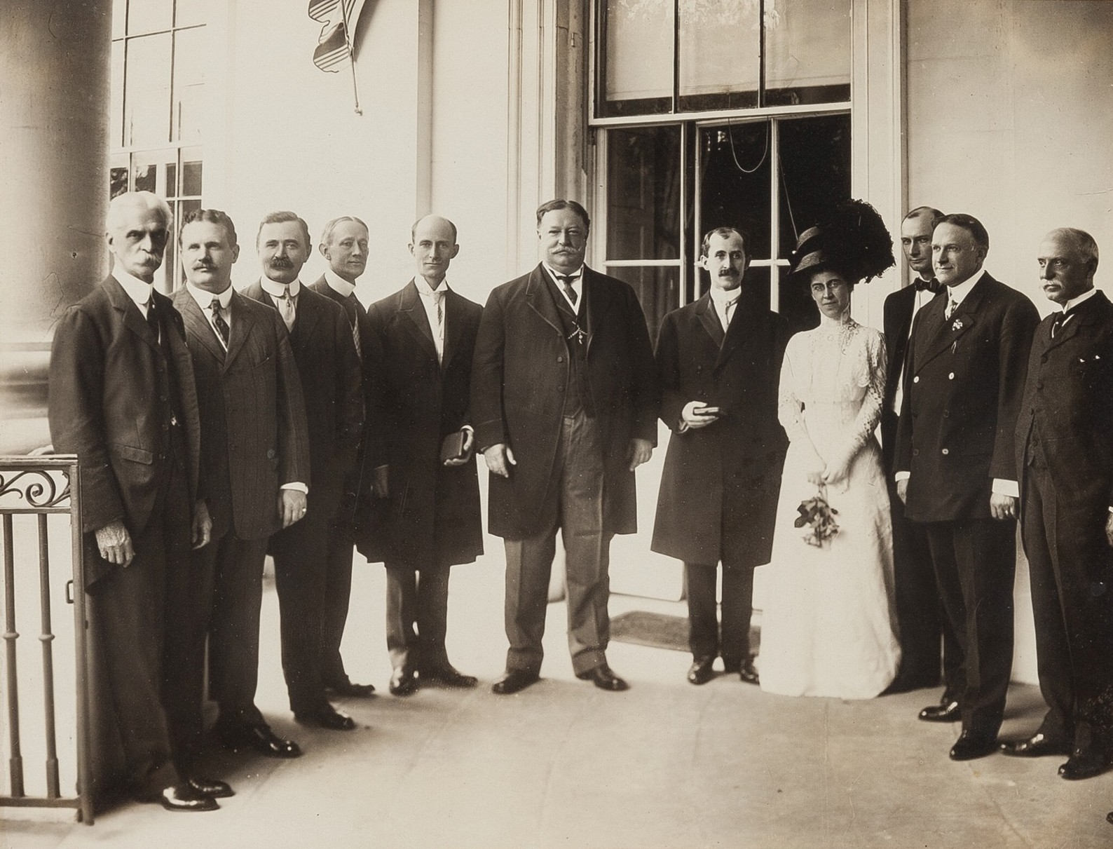 Wilbur and Orville Wright with William H. Taft and other notables. 9.25" x 7" photograph taken at the White House on June 10, 1909 on the occasion of the brothers receiving medals from the Aero Club of America. Other notables pictured and signing include: sister Katherine Wright; pioneering aviator and publisher A. Holland Forbes; aviator Alan R. Hawley; automotive pioneer Charles Jerome Edwards, and Assistant Secretary of War Robert Shaw Oliver. From the Estate of Malcolm S. Forbes.